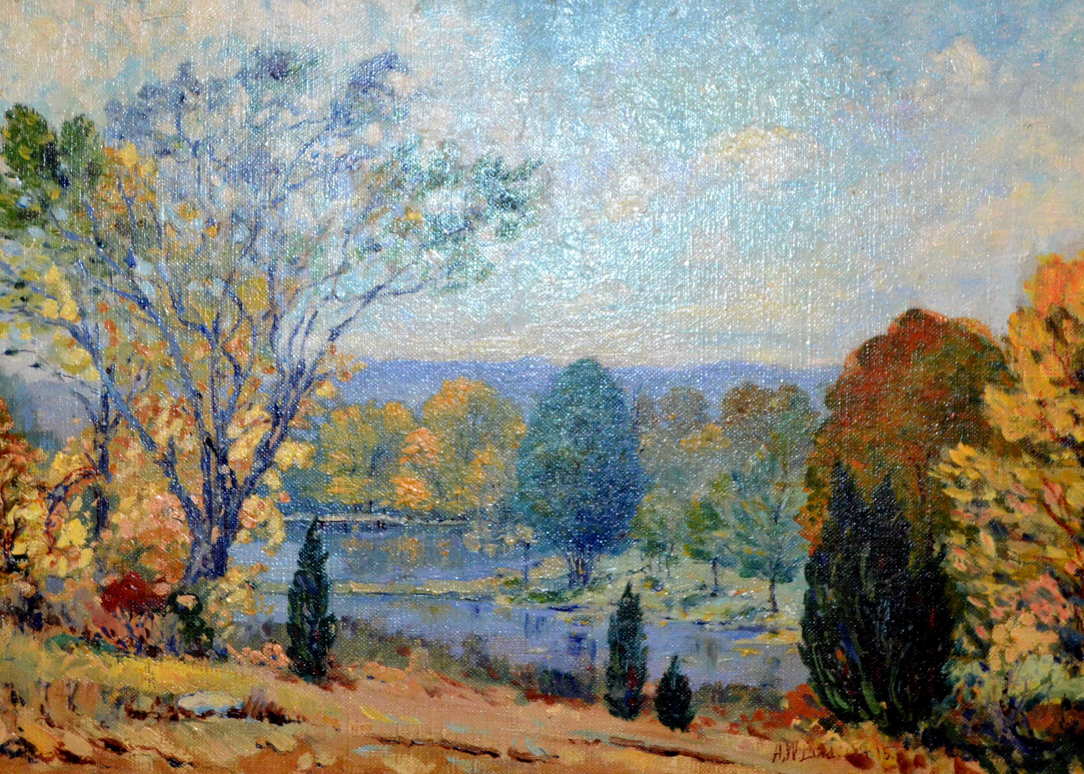 Austin Willard Lord oil on canvas